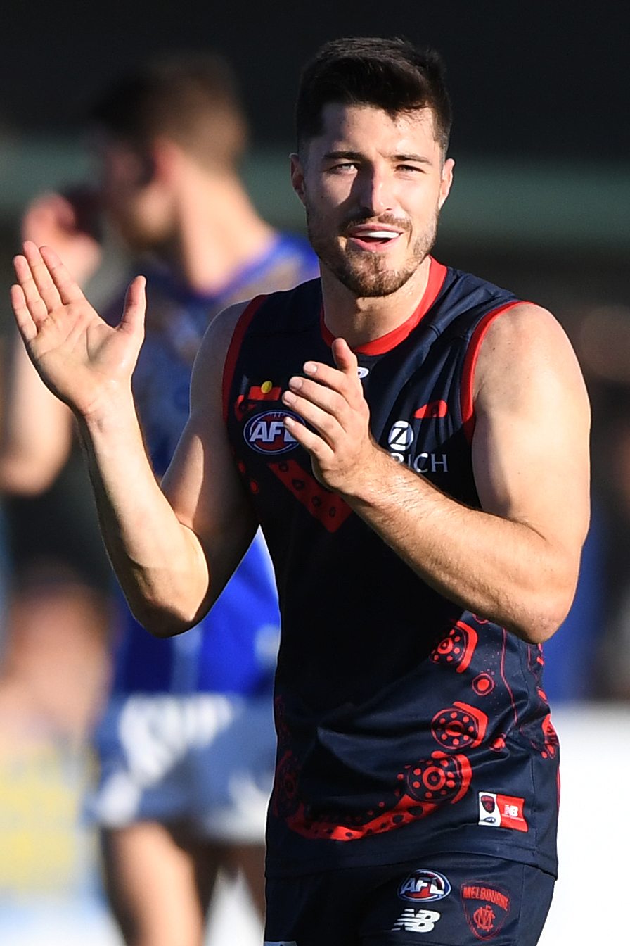 Alex Neal-Bullen of Melbourne during the 2019 AFL round 18 match between Melbourne and West Coast at Traeger Park on Sunday, 21 July 2019 in Alice Springs, Northern Territory.